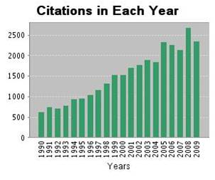 Chart that shows number of citations of Alex Zunger by year